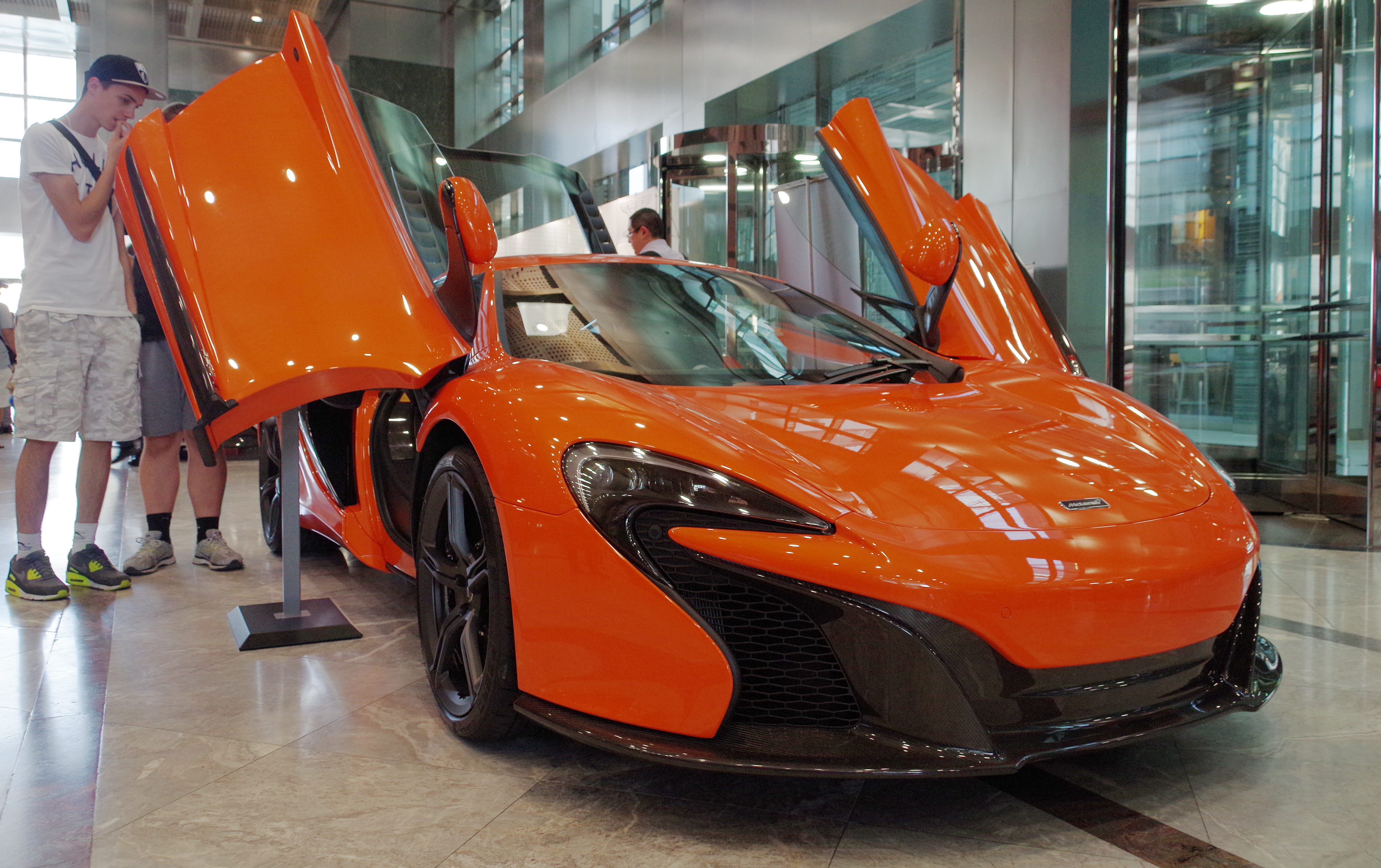 A McLaren MP4-12C at the 2014 London Motor Expo at Canary Wharf.